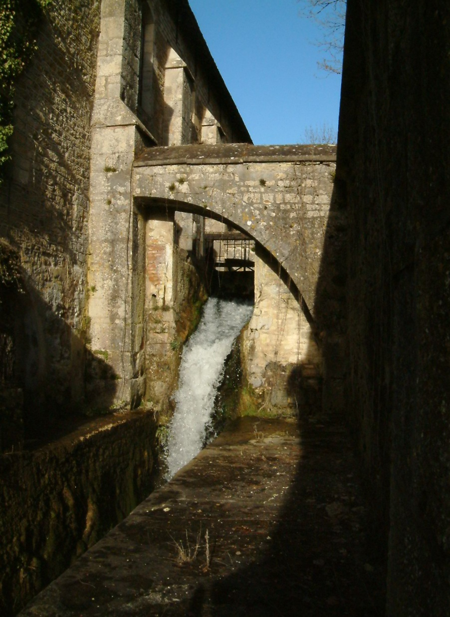 Fontenay Abbey, Burgundy, FRANCE.